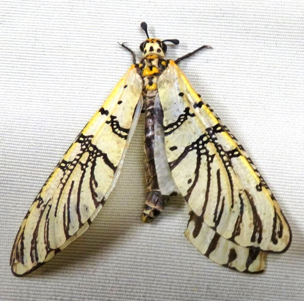 Painted antlion found after good rains at Warmbad (Bela-bela), Limpopo